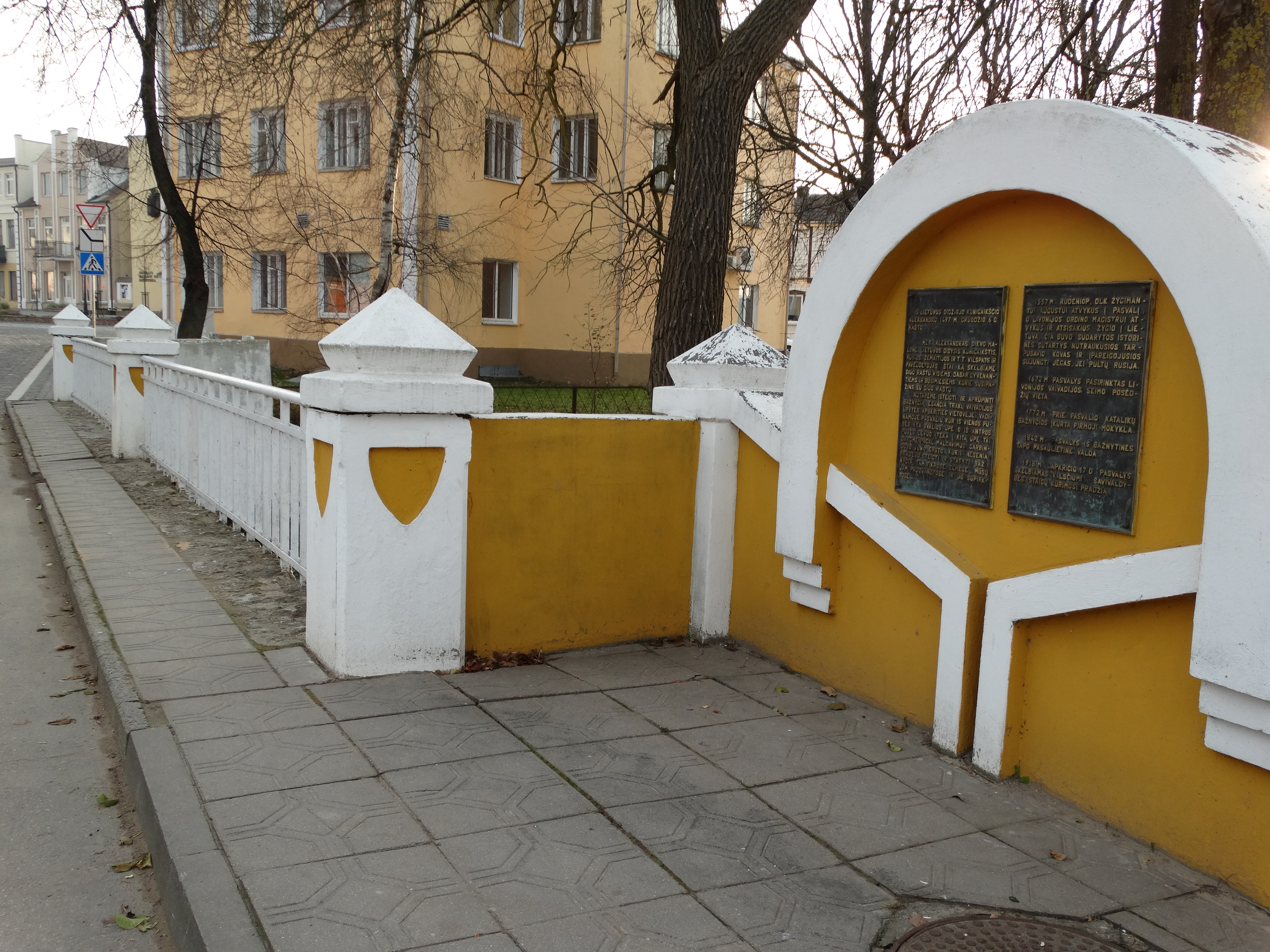 Memorial plaque, Treaty of Pozvol, Pasvalys, Lithuania